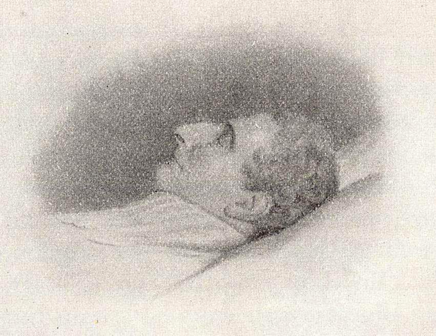 Kind Carl XIV John of Sweden on his deathbed in 1844, as released by image scanner Ristesson